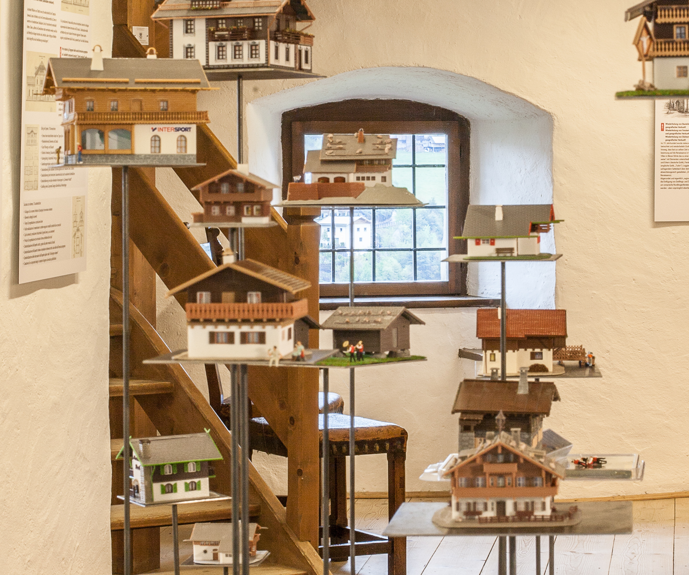 Exhibition "Architecture becomes Region" at Castel Presule, Völs am Schlern/Italy (foto: Gernot Baumann, Berlin-Innsbruck)